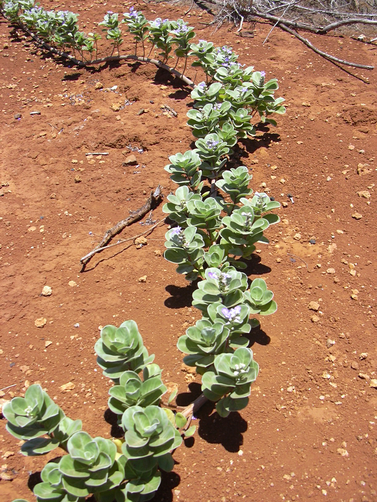 Vitex rotundifolia (habit). Location: Kahoolawe, Uprange